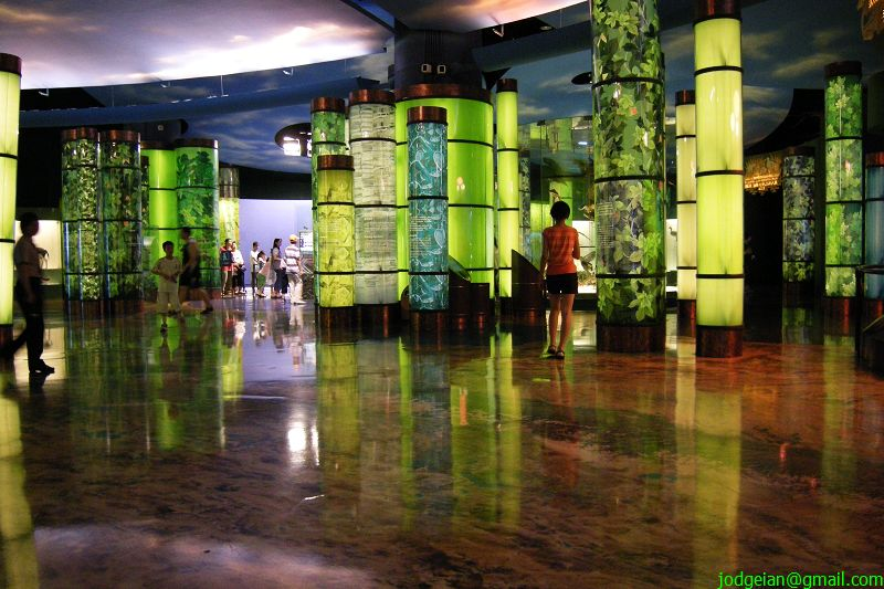 Part of the "Home on Earth" exhibition at the Shanghai Science and Technology Museum.